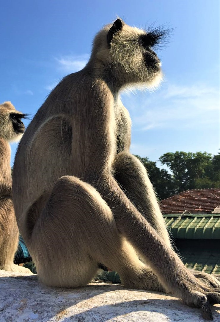 Colobinae side view